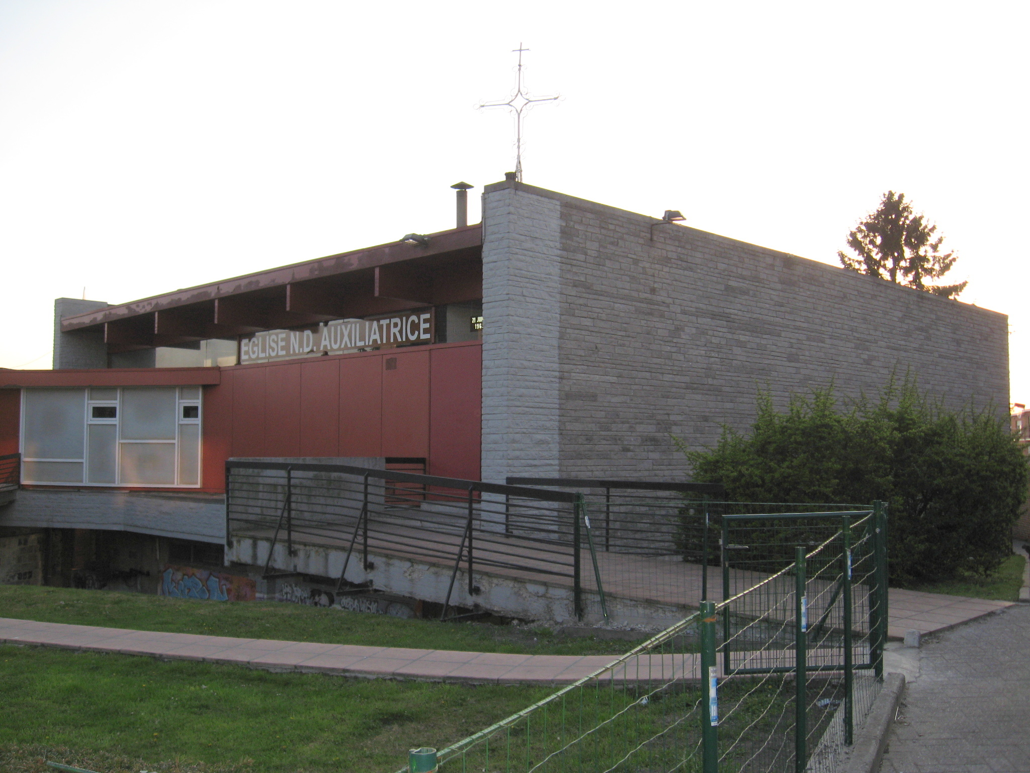 Church of Our Lady Auxiliatrice in Berleur, Grâce-Berleur, Grâce-Hollogne, Liège, Belgium